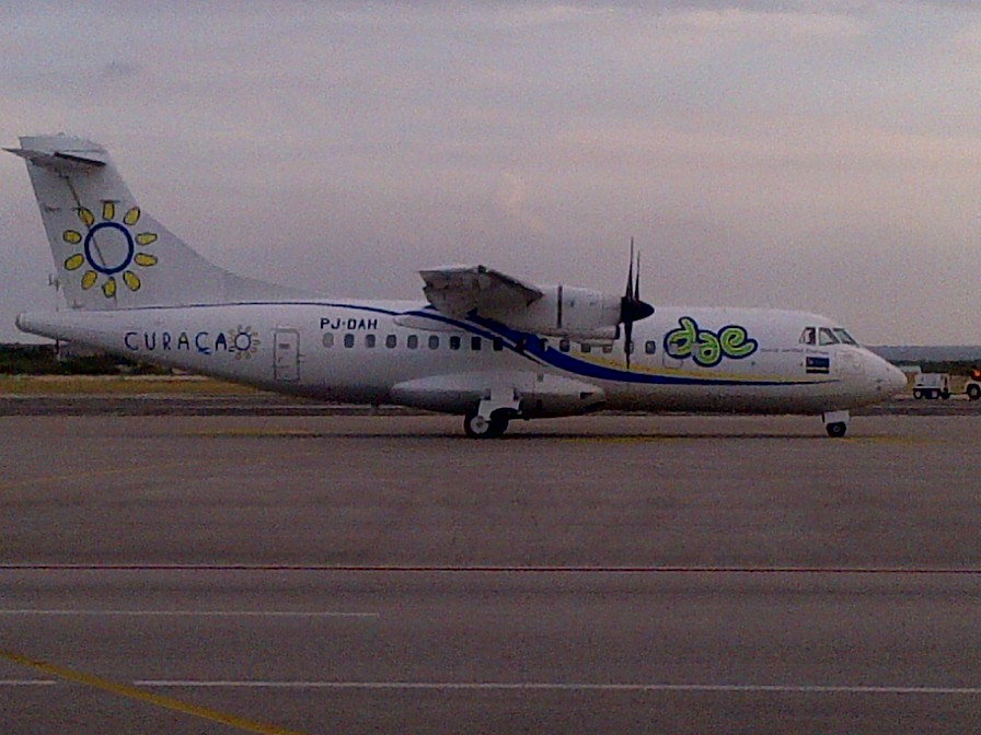 The new DAE atr leaving Aruba Reina Beatrix Airport